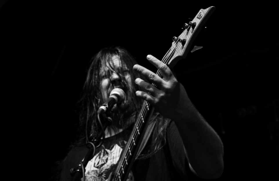 Sean Beasley performing with Dying Fetus in Bratislava, Slovakia 2009-10-19